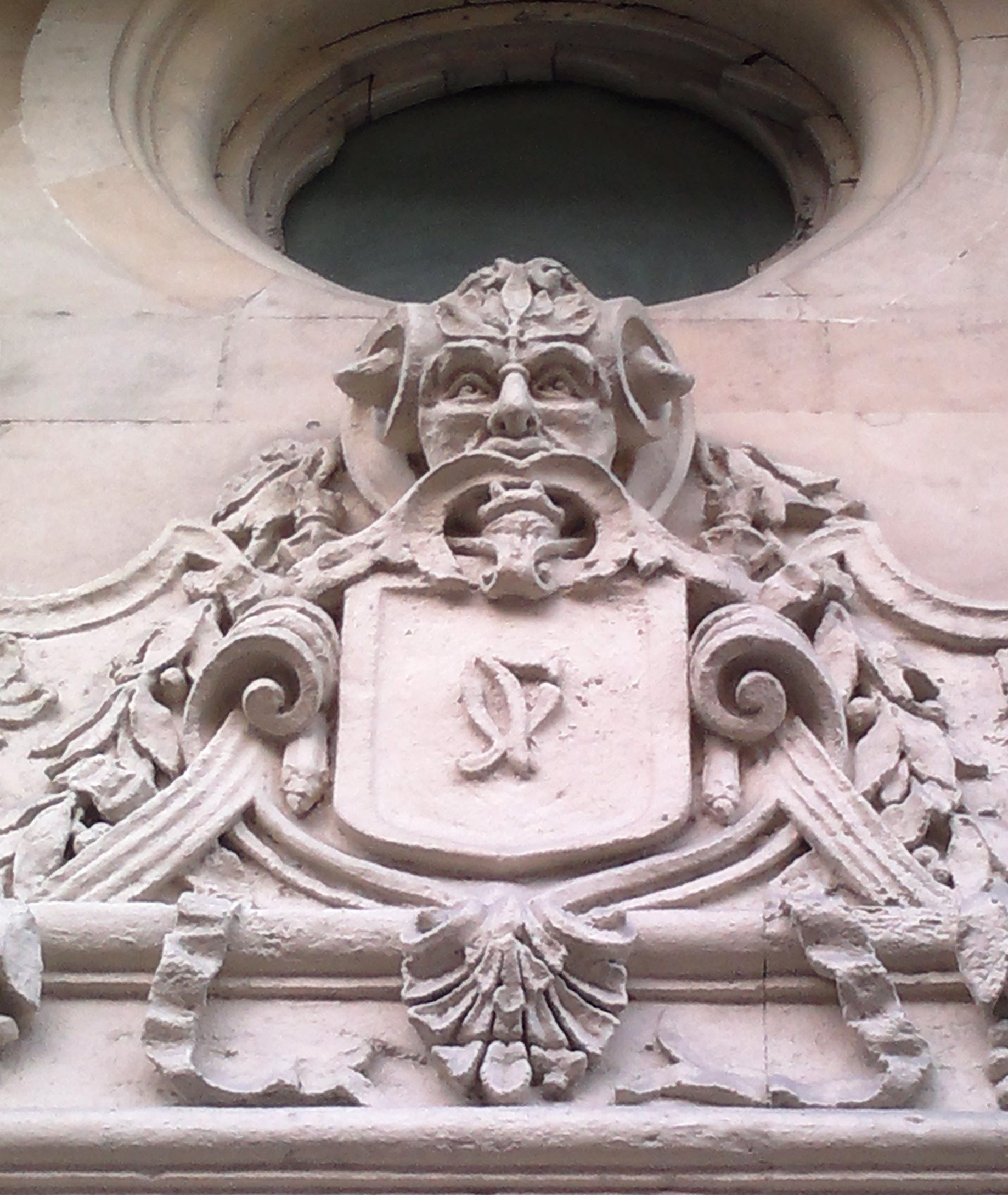 Building of Yasamal Rayon Municipality on 12 Jafar Jabbarly Street. Built in 1915.